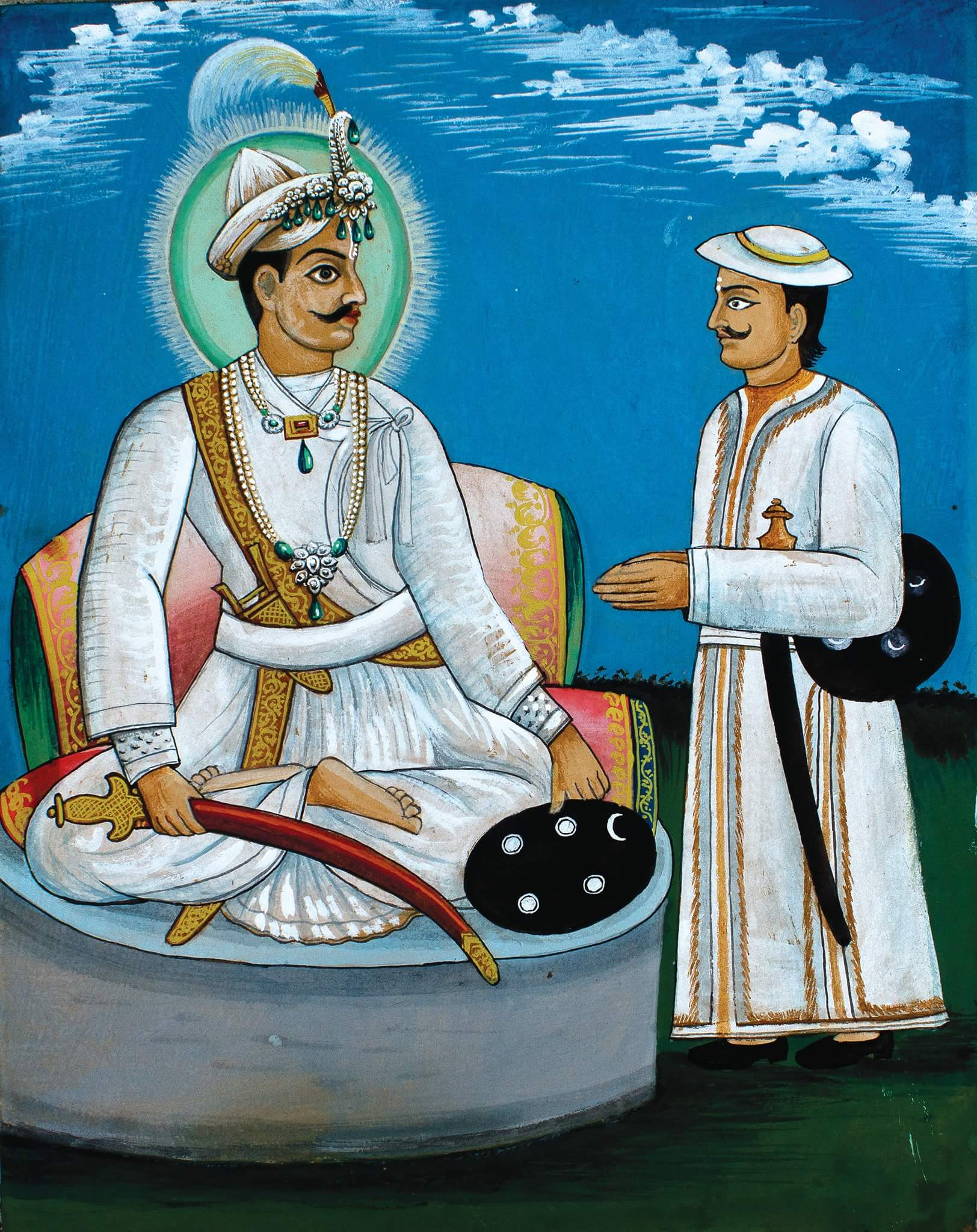 King of then Gorkha later Nepal, Prithvi Narayan Shah (1723-1775) with Senapati Shivaram Singh Basnyat (died 1747)